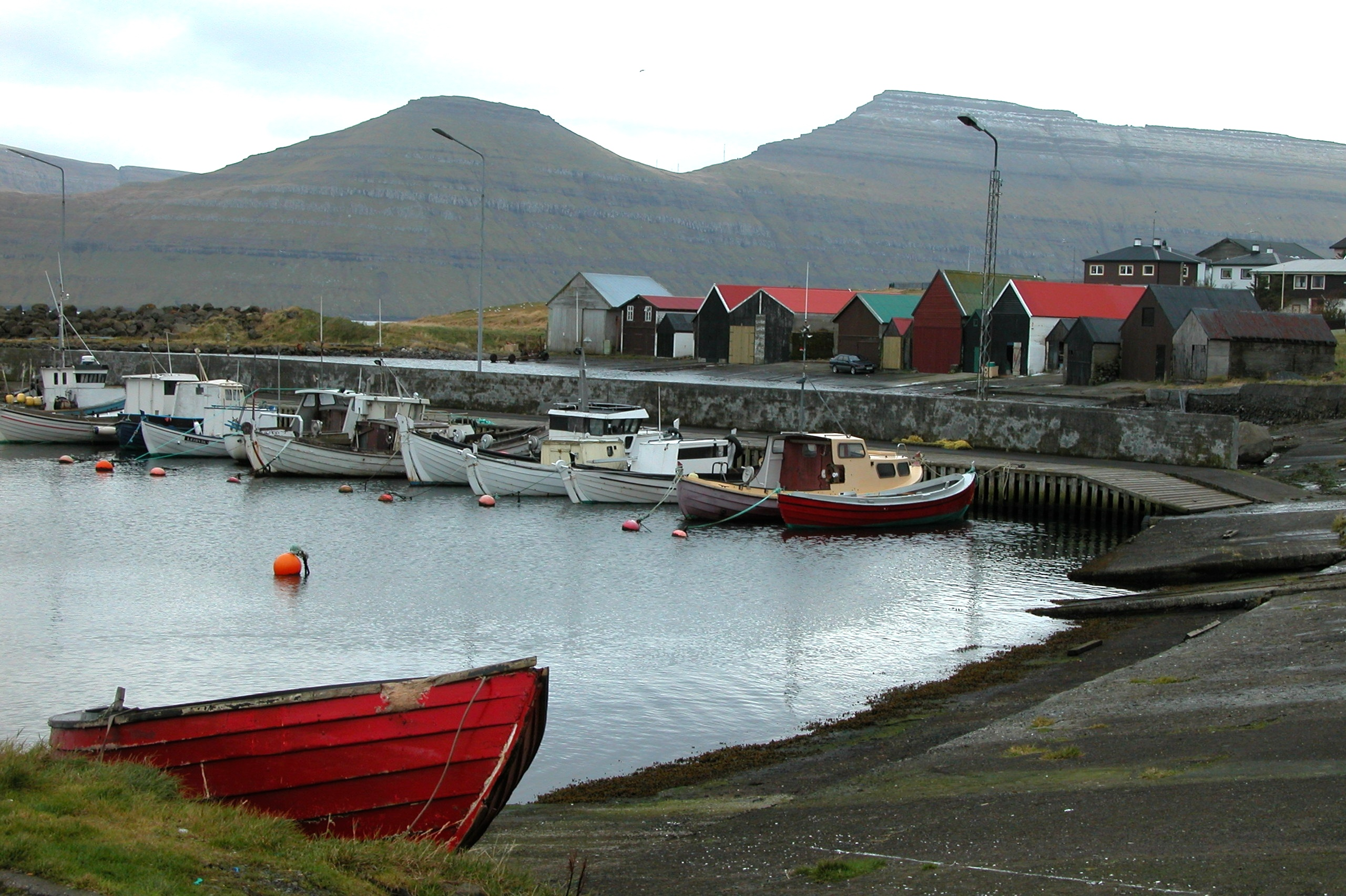 Leirvík in Eysturoy, Faroe Islands: Boat harbour